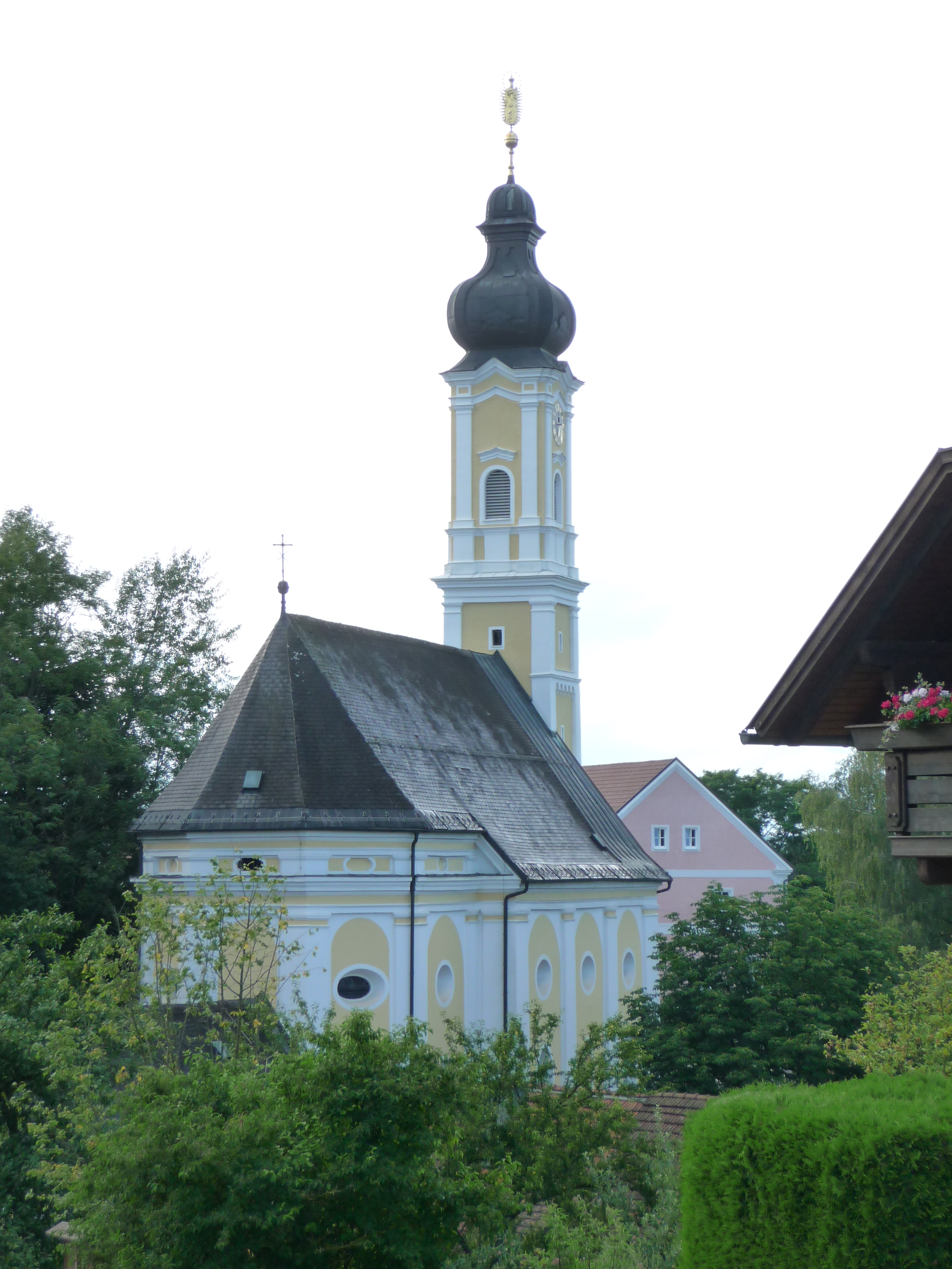 The parish church of Brunnenthal, view from southeast. Schärding district, Upper Austria.